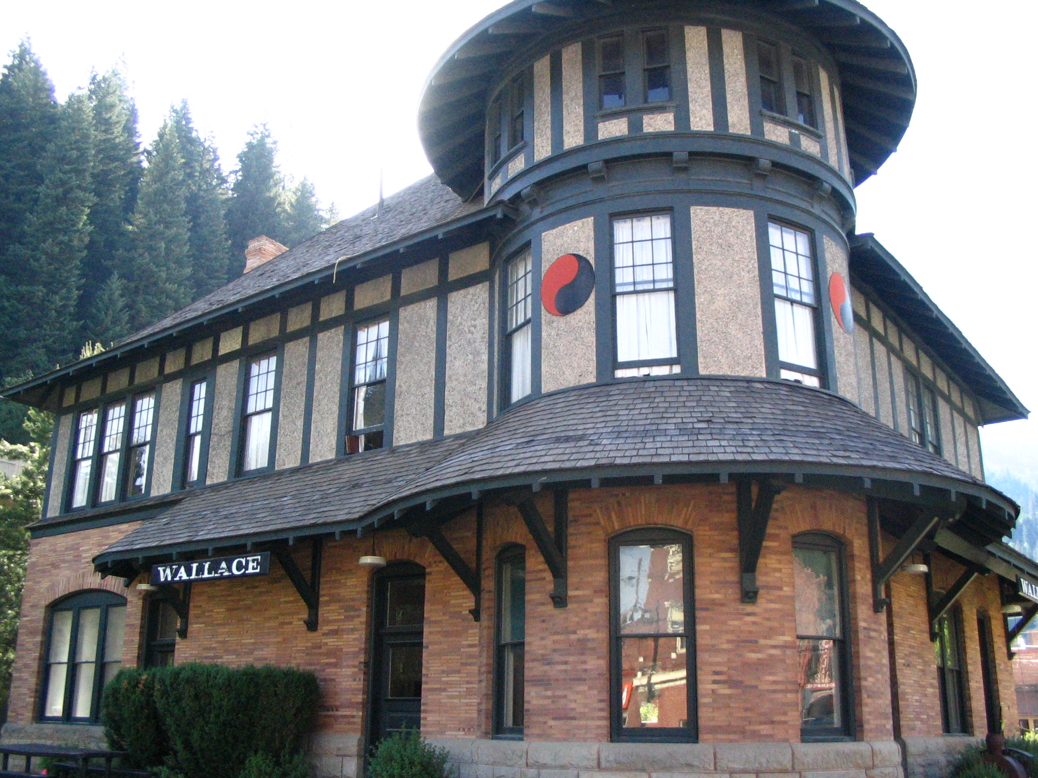 Northern Pacific Depot, Wallace, Idaho. This building is listed on the National Register of Historic Places.